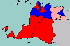 Map of the district results of the 2017 Banten gubernatorial election. Regencies/cities won by Rano Karno are in red (■), while the ones won by Wahidin Halim are in blue (■). Lighter shades (■or■) indicate a winning majority of less than 5%.